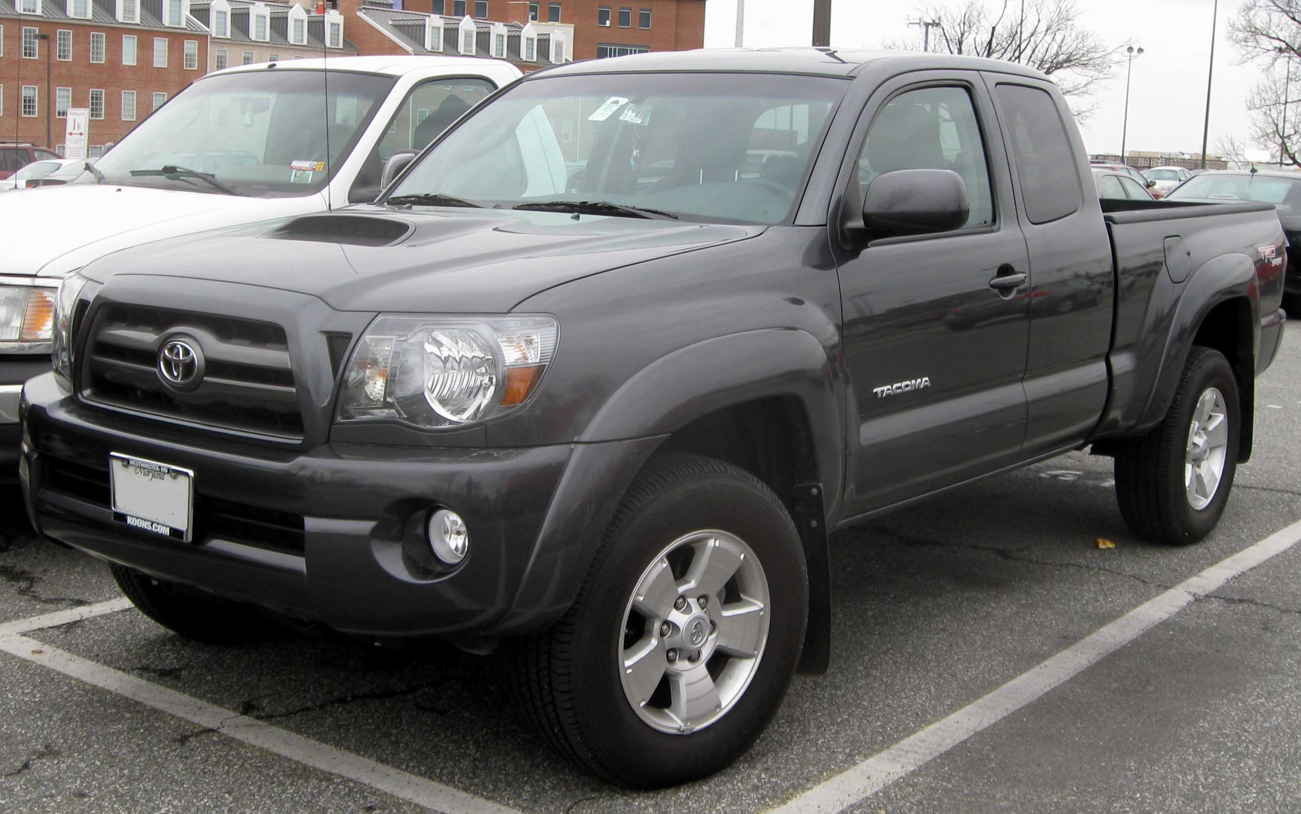 2009 Toyota Tacoma photographed in College Park, Maryland, USA.